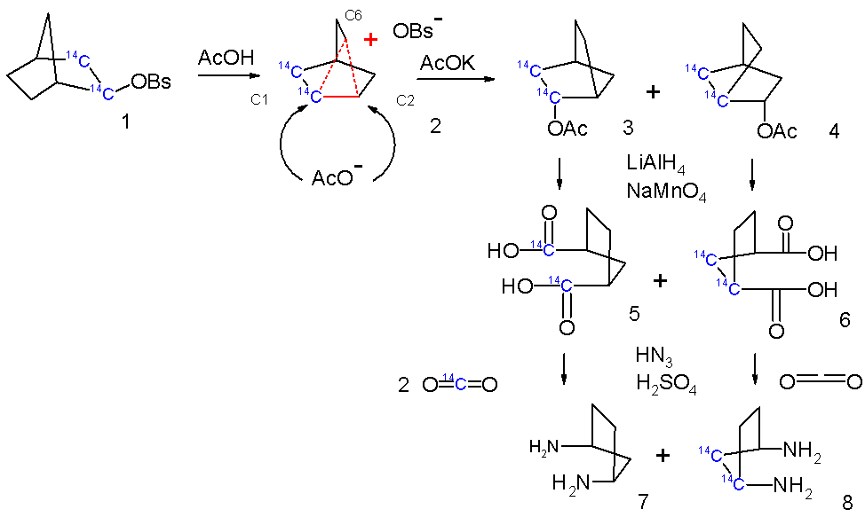 Nonclassical ions tracer studies